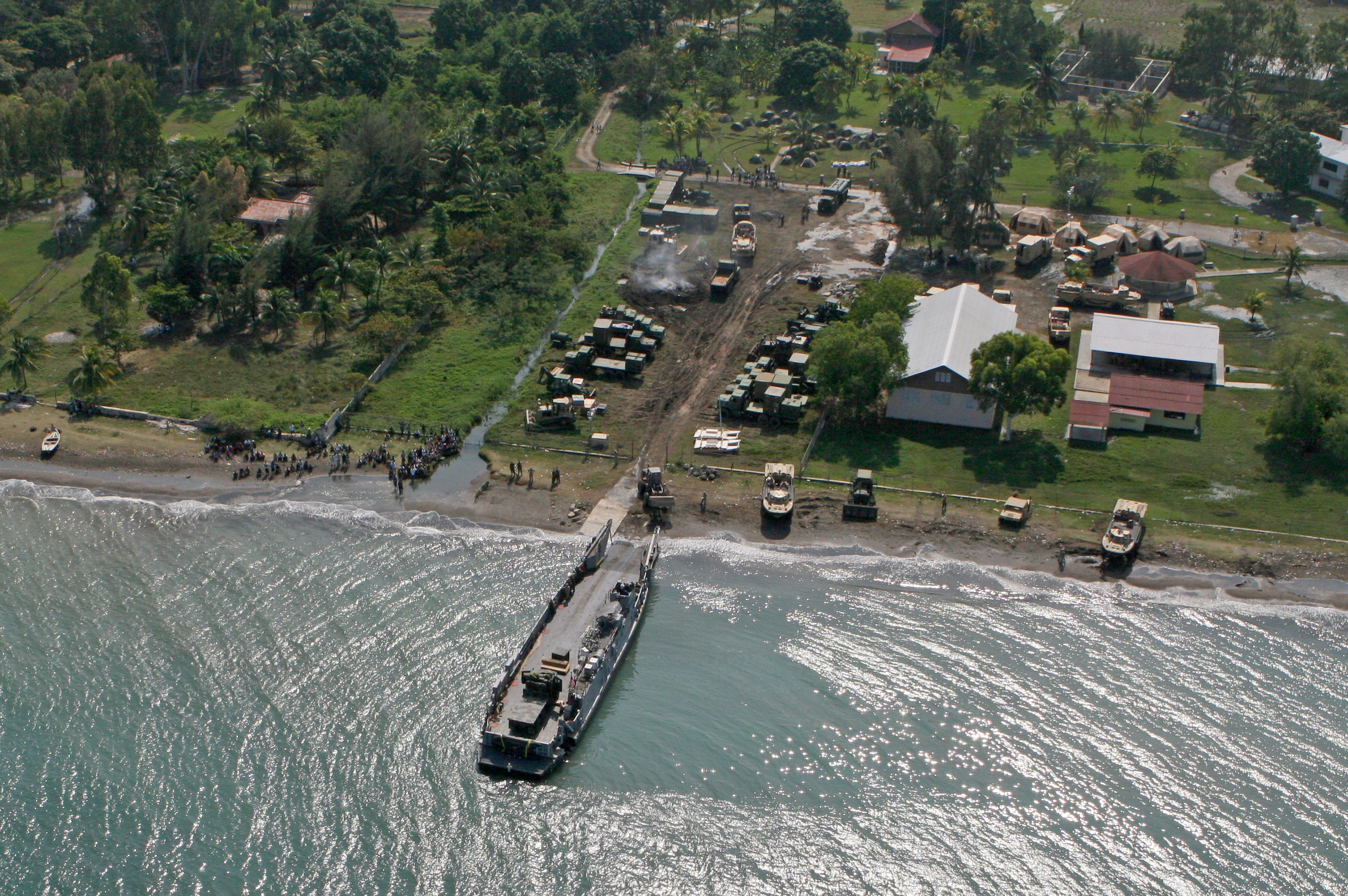 US Navy and Marines build a harbor landing facility near Port-au-Prince following the 2010 earthquake.